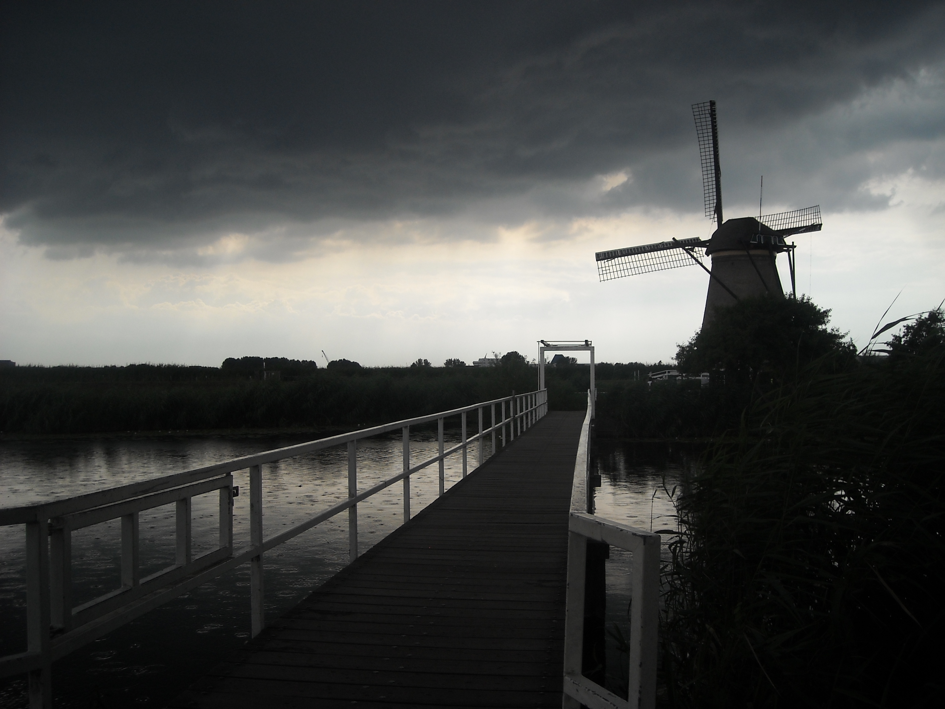 Windmill at Kinderdijk